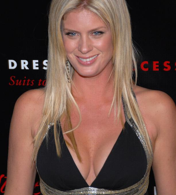 Model Rachel Hunter at the Slim-Fast Fashion Show